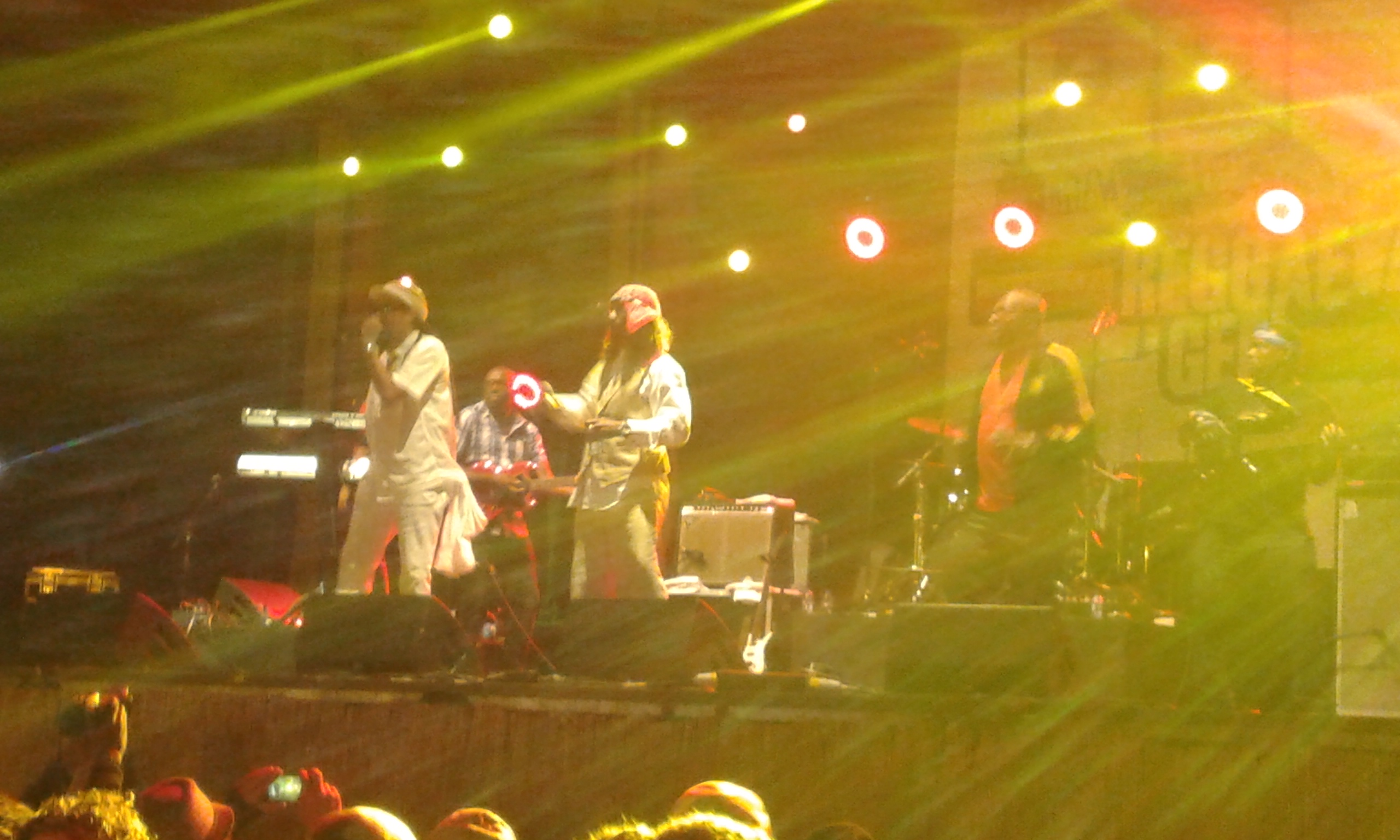 Permormance of Super Cat @ Reggae Geel 2015